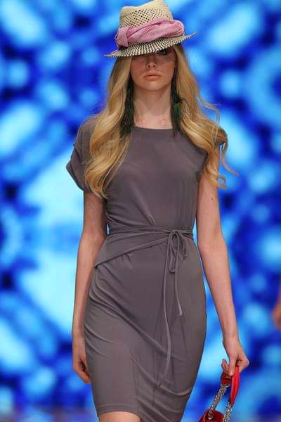 Bryanna Elkins walking the runway at Toronto Fashion Week, wearing fashions by Jay Manuel on behalf of Sears Canada.